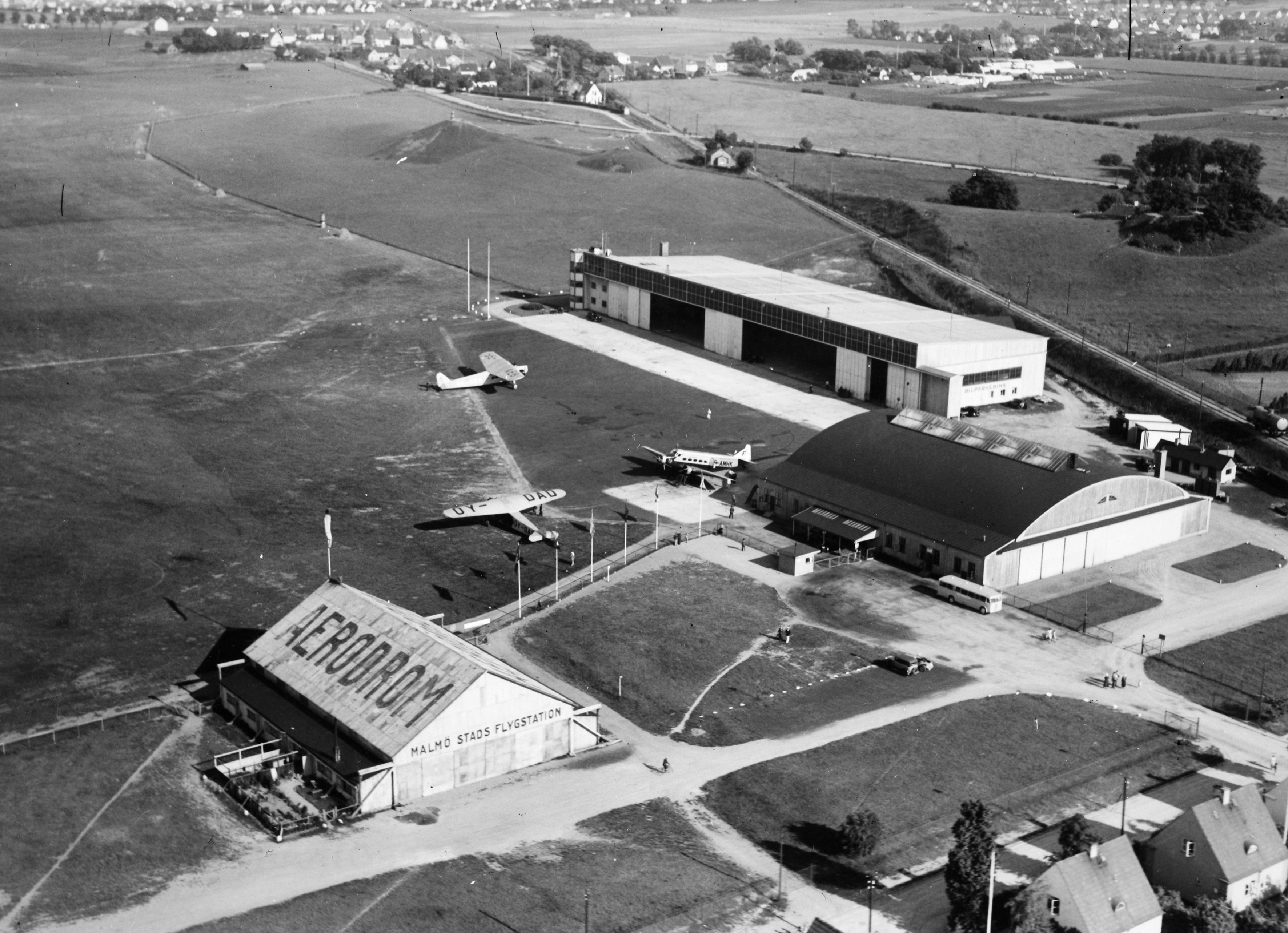 Airport Malmö Bulltofta BUA, View of Bulltofta Airport, Malmö, 1930s.